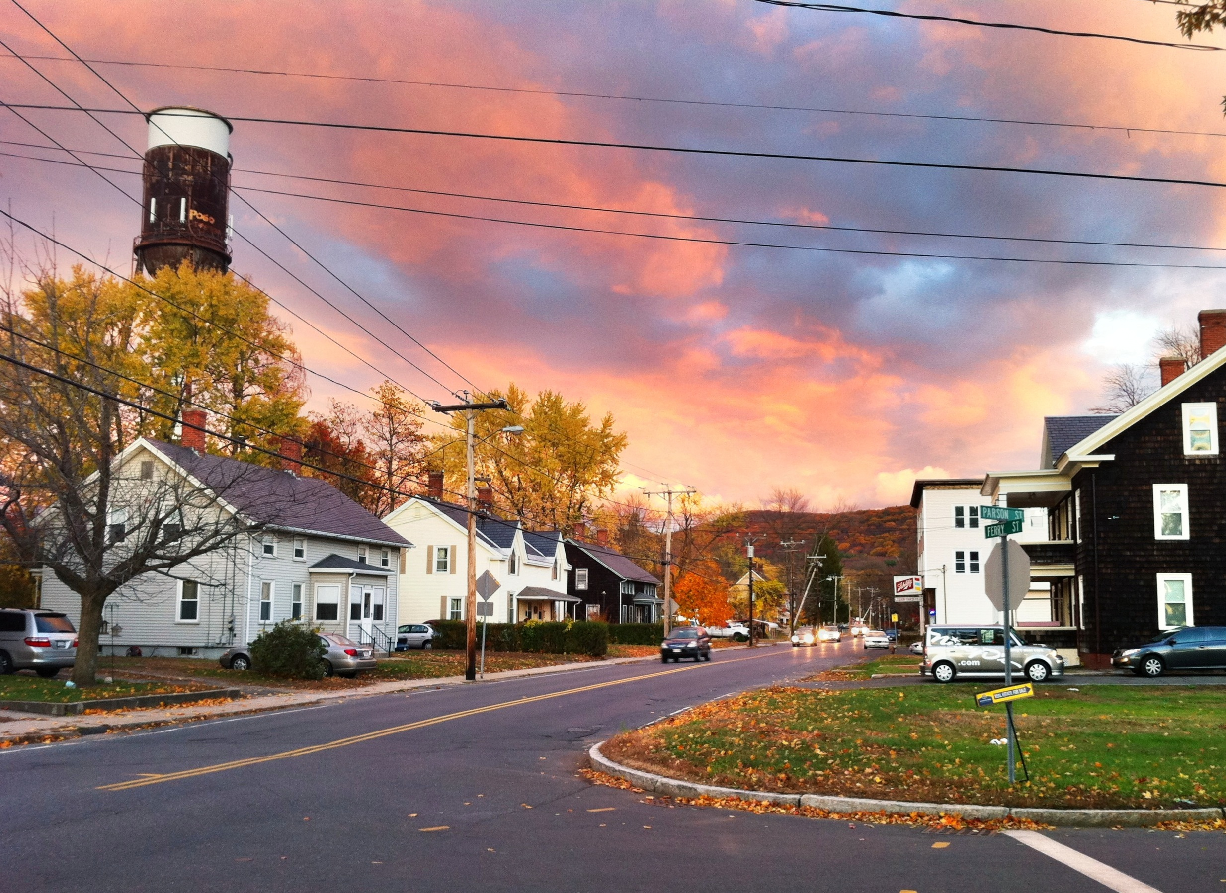 Intersection of Parson St and Ferry St in Easthampton, Massachusetts, USA